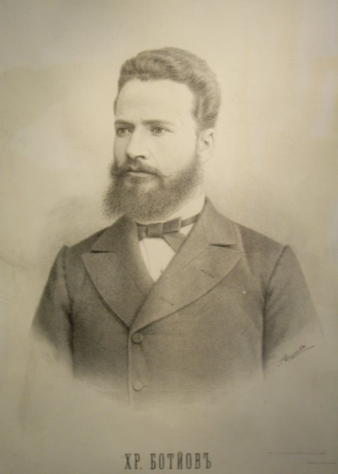 Portrait of Hristo Botev by Georgi Danchov Zografina